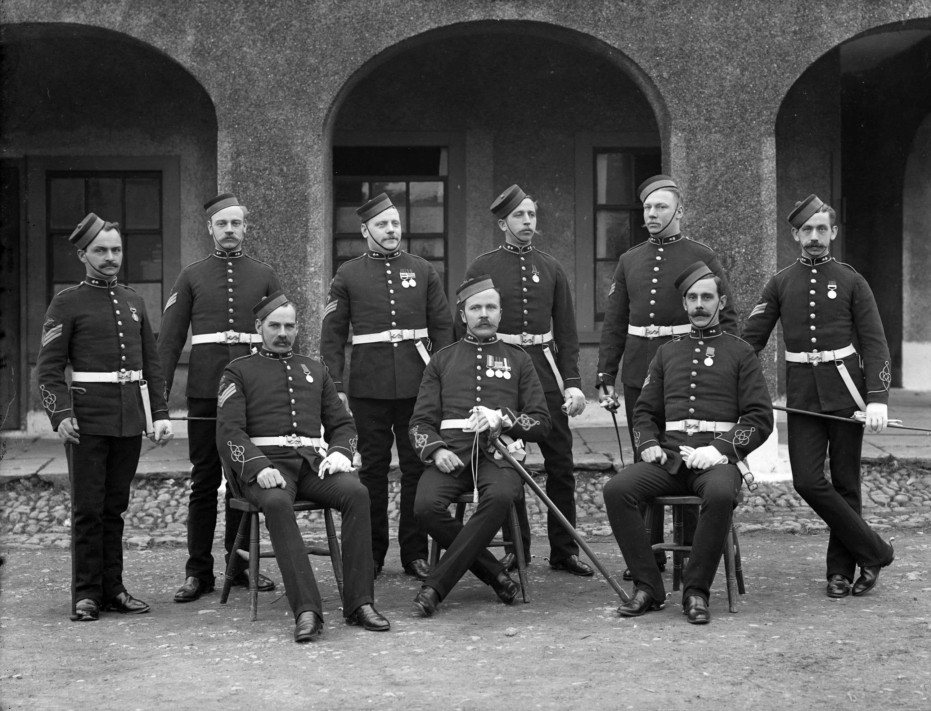 Think this may the photographic definition of a fine body of men, and there is some mighty moustache waxing in evidence here too. This is a group of sergeants (don't know the collective term, but would like to hear your ideas!) at the Cavalry Barracks in Waterford. Any guesses (educated or otherwise) on whether the gentleman who may be Sergeant Murray in this 1909 photo from the same barracks is in this group? Date: Saturday, 27 February 1904 NLI Ref.: P_WP_1324